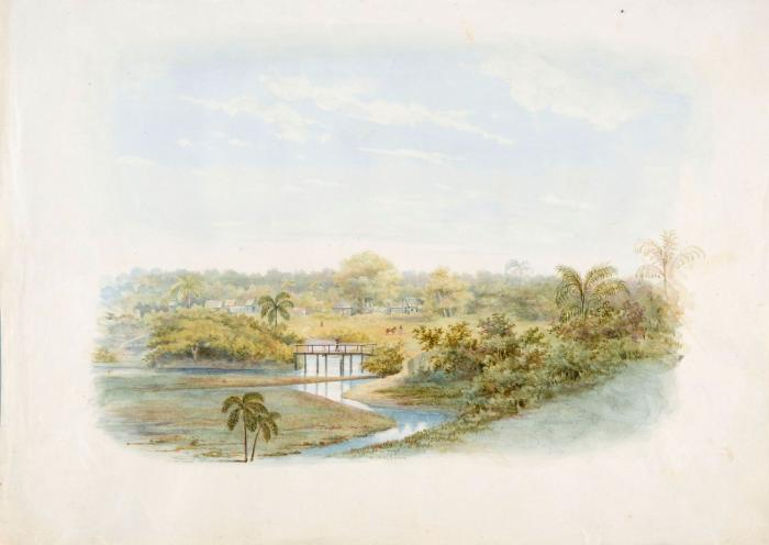 View of a plantation, probably timber plantation 'Berlijn'